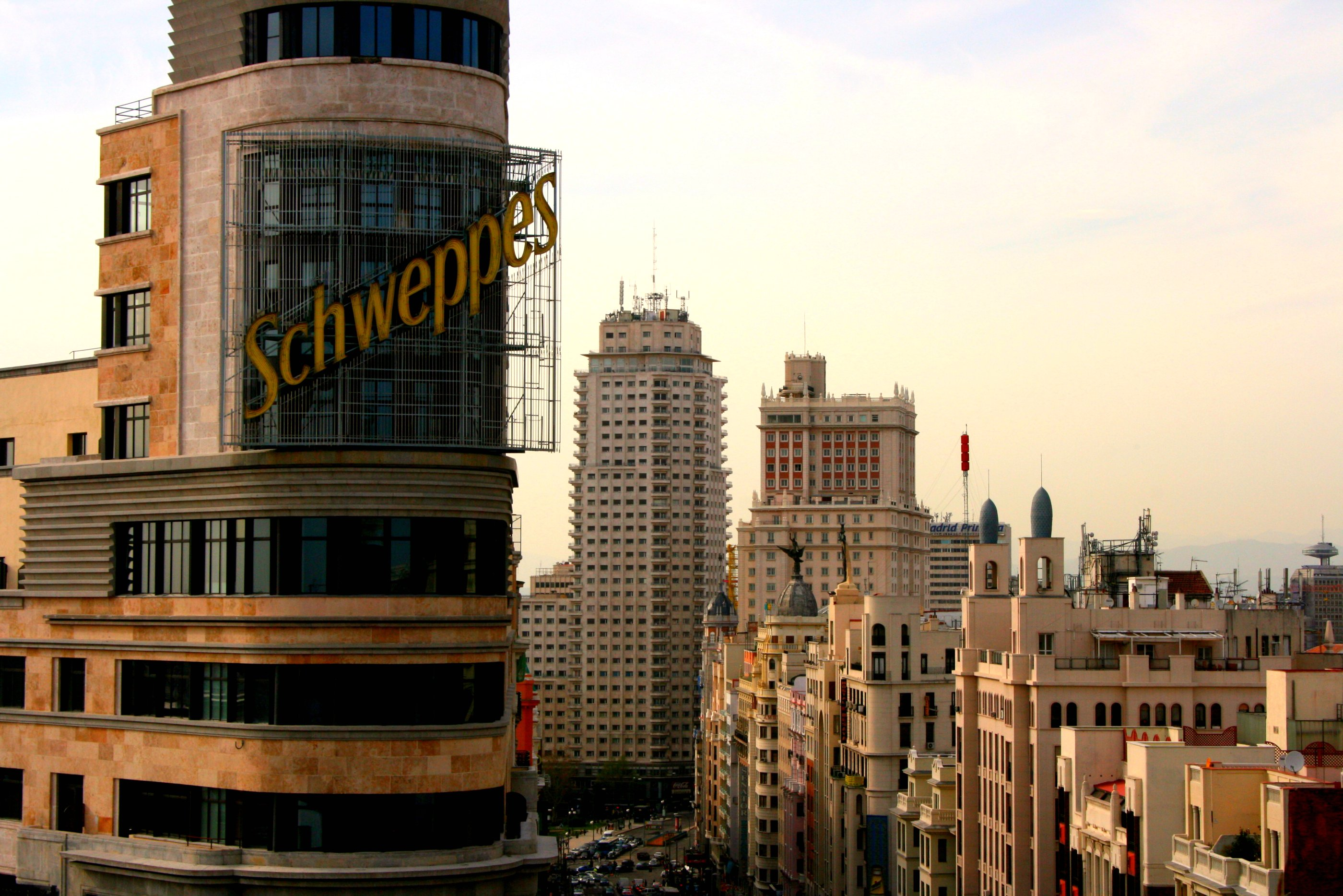 Buildings in Gran Vía (a downtown avenue) in Madrid (Spain), seen from a building at Plaza del Callao (square). Left: Edificio Carrión. In the background, Torre de Madrid (white skyscraper).